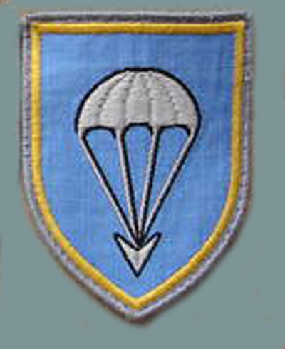 27th Airborn Brigade